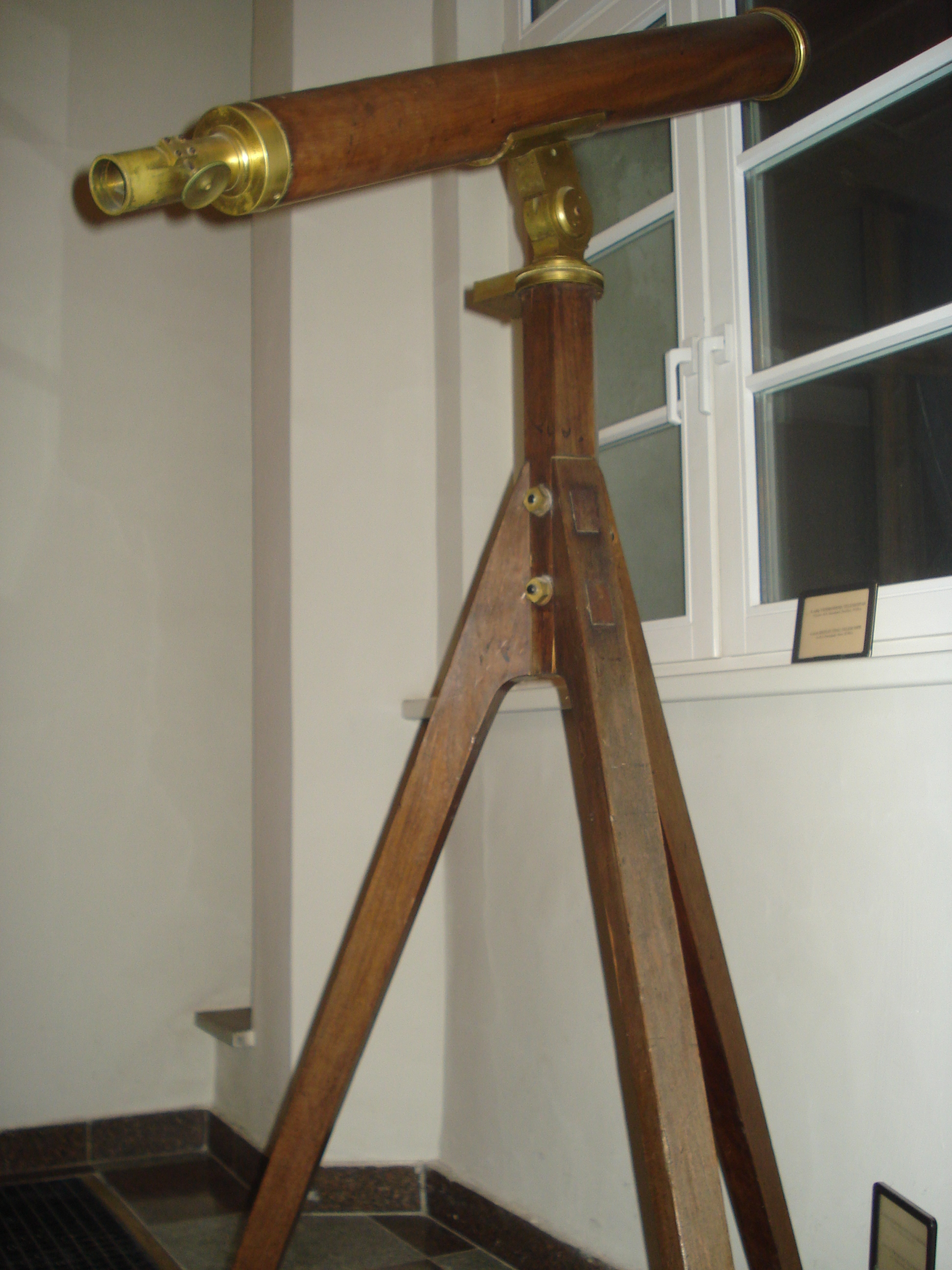 Achromatic telescope by Georg Simon Plössl (Simon Plößl; 1794-1868). Vienna 19th cent. White hall of the Vilnius university libraryLietuvių: Achromatinis teleskopas. 19 amž. Meistras Georg Simon Plössl. Viena. Vilniaus universiteto bibliotekos baltoji salė